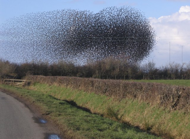 The flock of starlings acting as a swarm. The radio masts at Anthorn are visible for the moment.